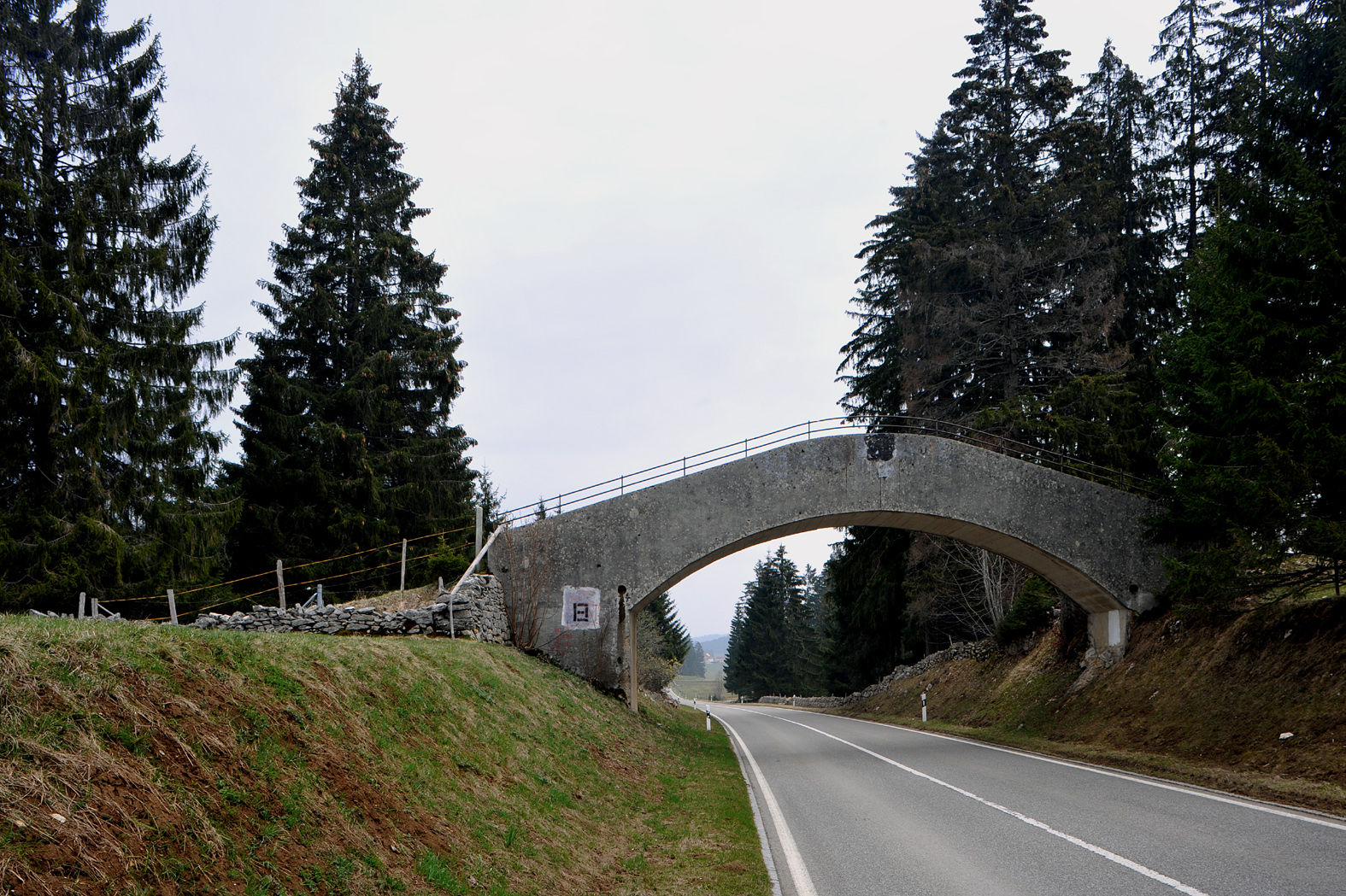 Cattle bridge in La Chaux-d'Abel; Berne, Switzerland.